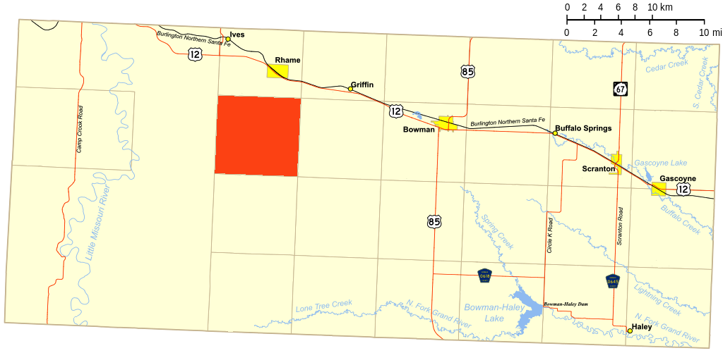 Map of Bowman County, ND, with Adelaide Township highlighted